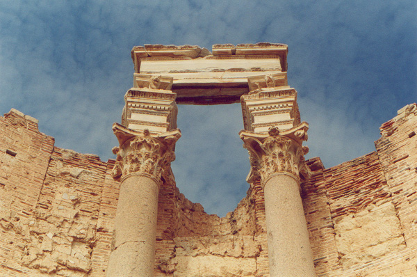 self made